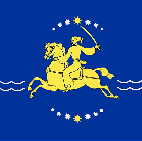 Flag of Nikopol City